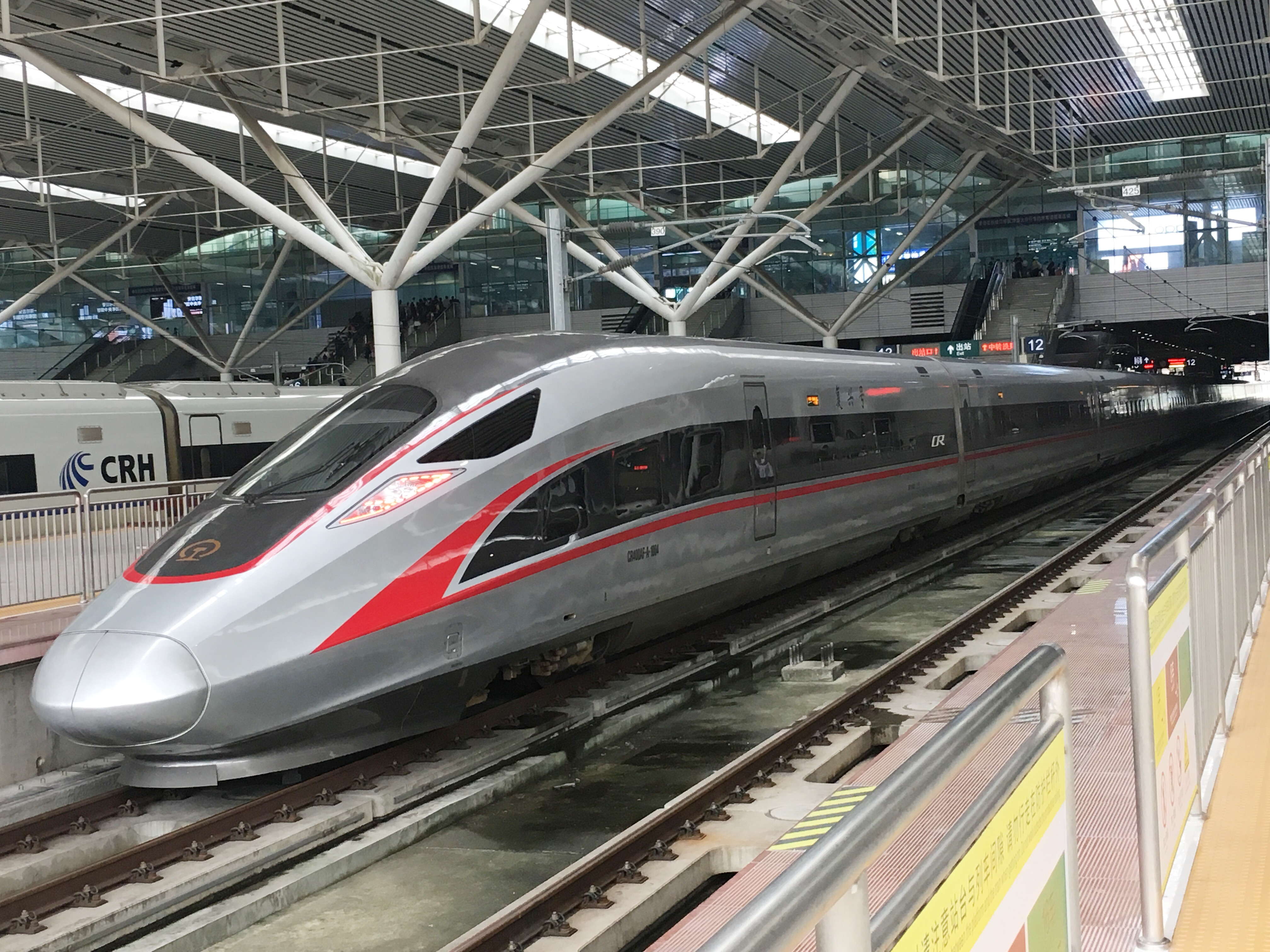 中文（香港）: This photo is taken in Shenzhenbei Station.